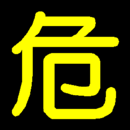 Dangerous substance(危険物)